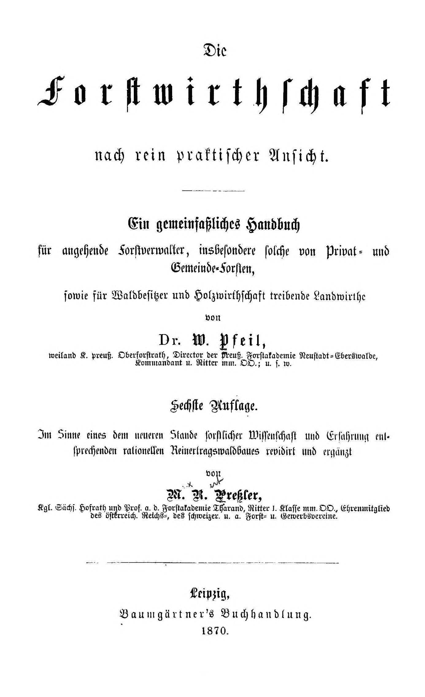 Wilhelm Pfeil: Die Forstwirtschaft nach rein praktischer Ansicht. 6. Edition by Max Robert Preßler. Baumgärtner's Buchhandlung, Leipzig 1870